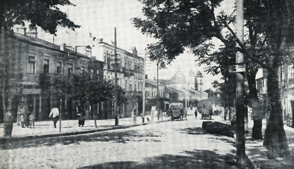 Lublin street in Chelm before WWII